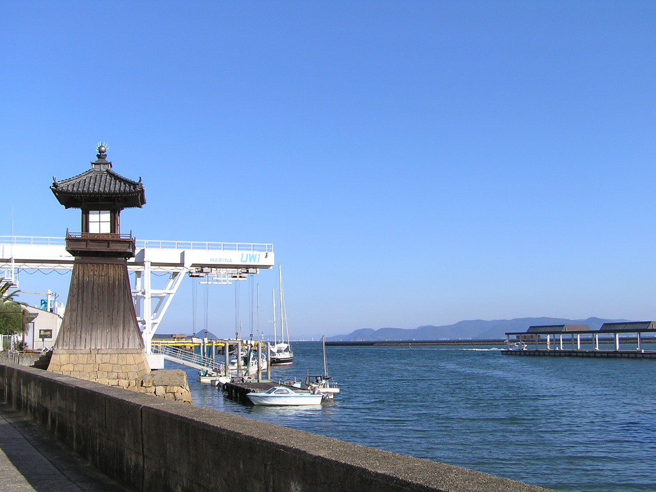 Old lighthouse of Nozakihama